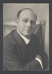 former Congressman James Henry Mays.